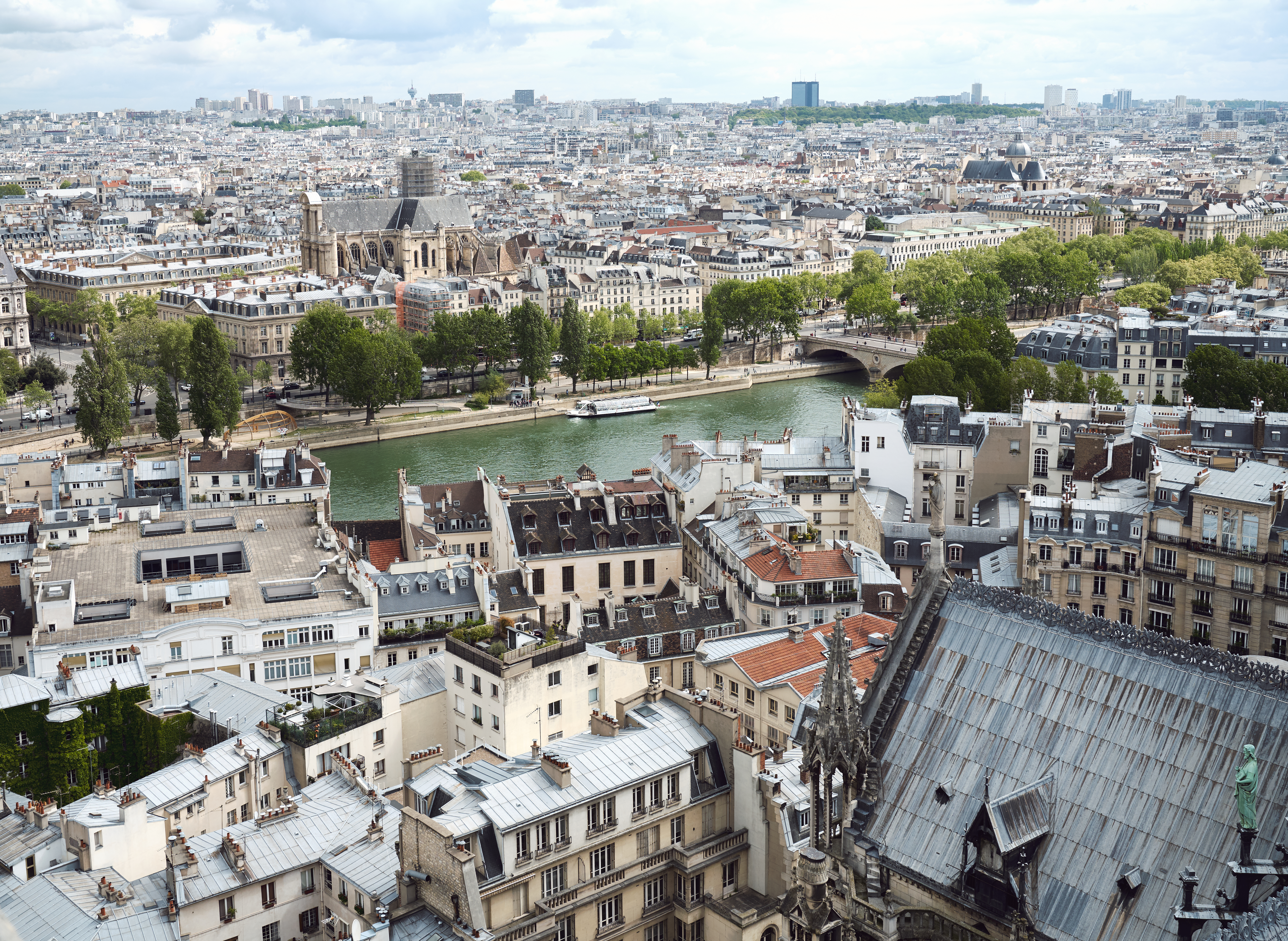 Paris from the top of the Notre-Dame Cathedral